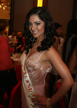 Miss New Zealand 2003 - Stephanie Maria Dods in Miss World 07, Sanya, China